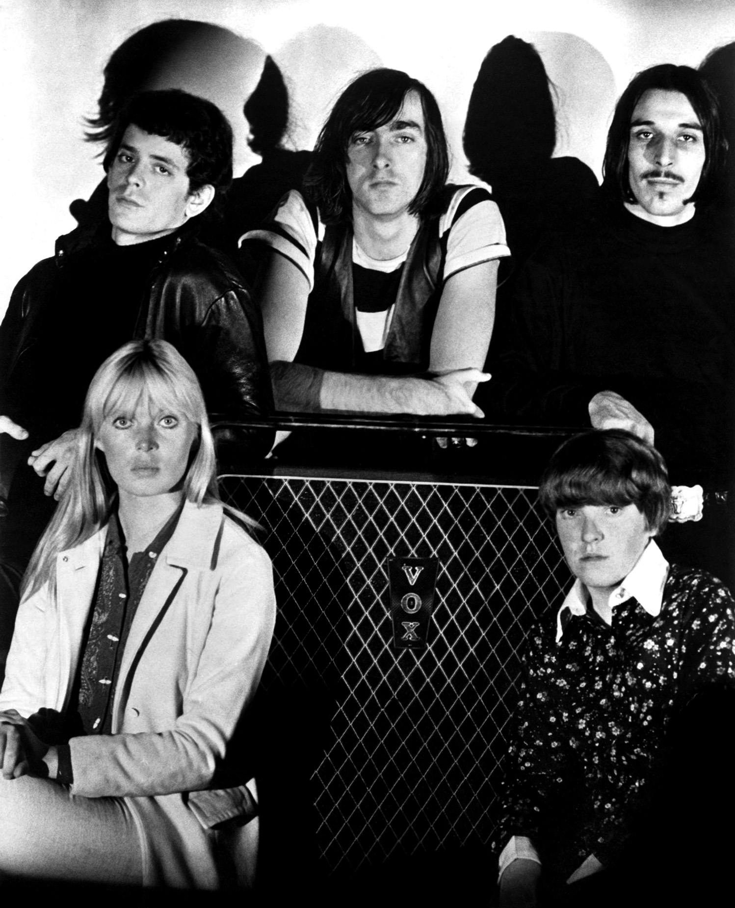 A publicity photo of the American rock band The Velvet Underground circa 1966, around the time that they were recording their debut album The Velvet Underground & Nico. The band members are positioned around a Vox-brand amplifier. Clockwise from top left: Lou Reed, Sterling Morrison, John Cale, Maureen Tucker, and Nico.